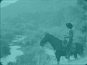 Image from the 1917 film by John Ford, Bucking Broadway